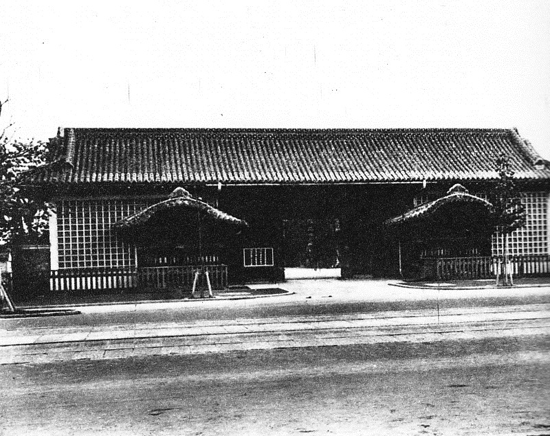 Rokumeikan Kuromon circa 1940